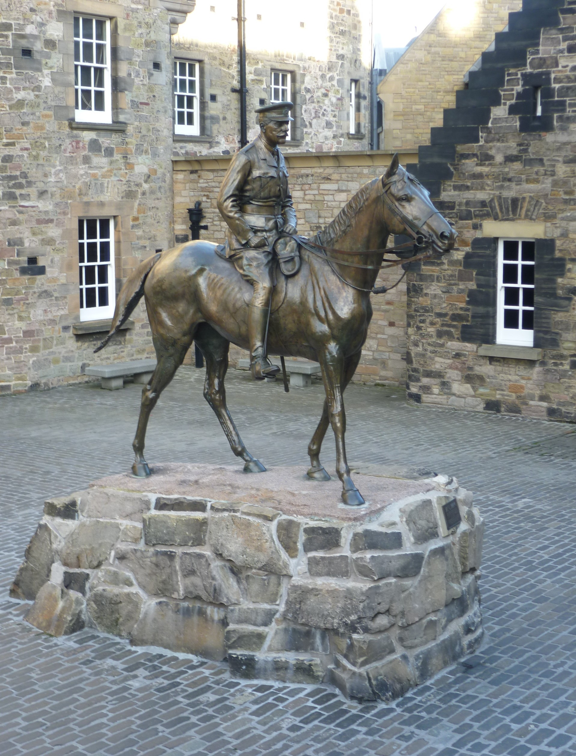 Once in full public view near the Castle entrance, but, since 2011, relatively hidden away in a back courtyard at the entrance to the National War Museum. Visitors, both children and adults, are now allowed to clamber over the statue in a way that would have been unthinkable for previous generations.